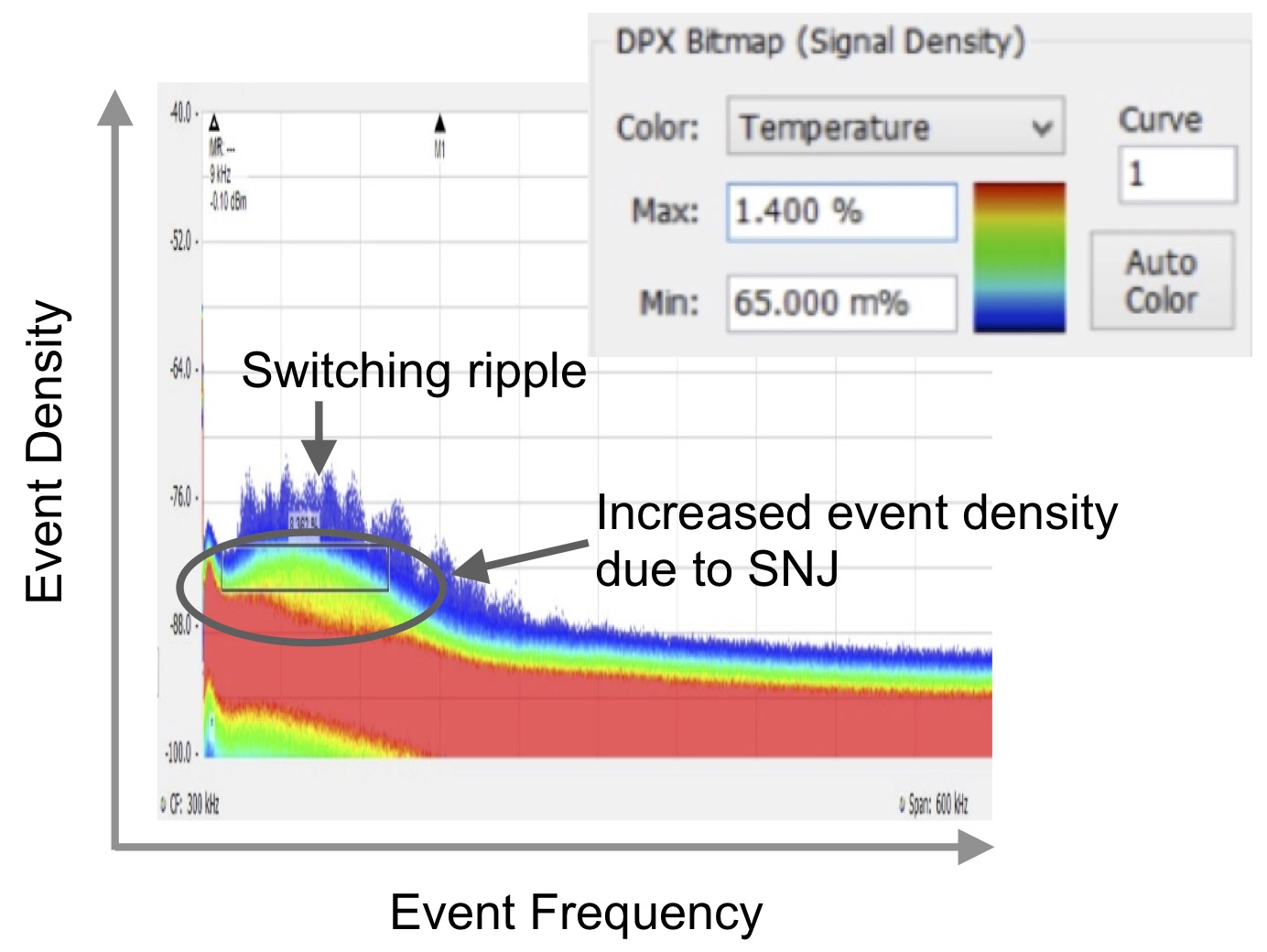 DPX plot of the supply bias waveform shownig the impact of SNJ